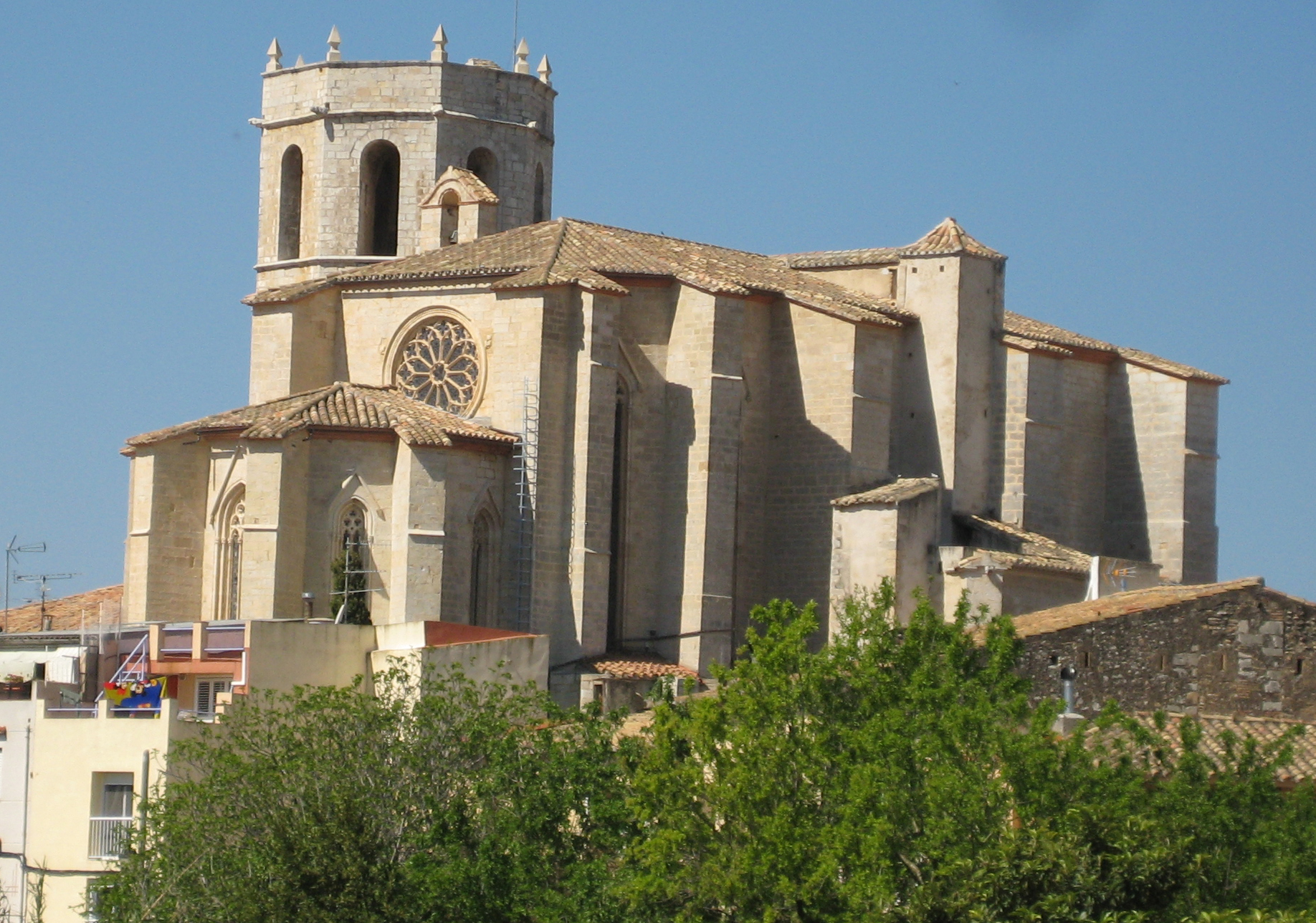 St Mattew's church. Sant Mateu (Castellón, Spain)